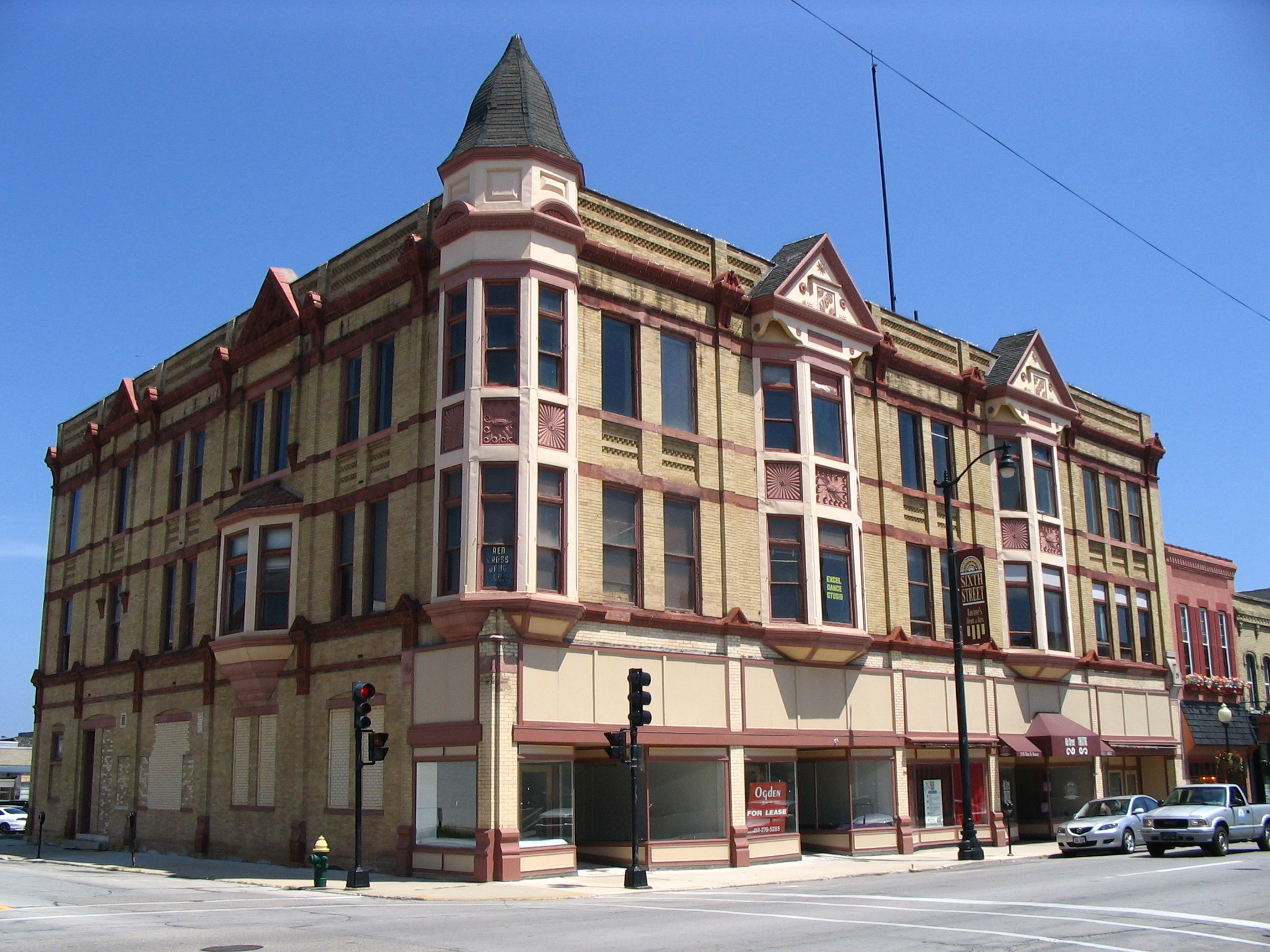 Y.M.C.A. Bldg, Racine, Wisconsin. This building is listed on the National Register of Historic Places.